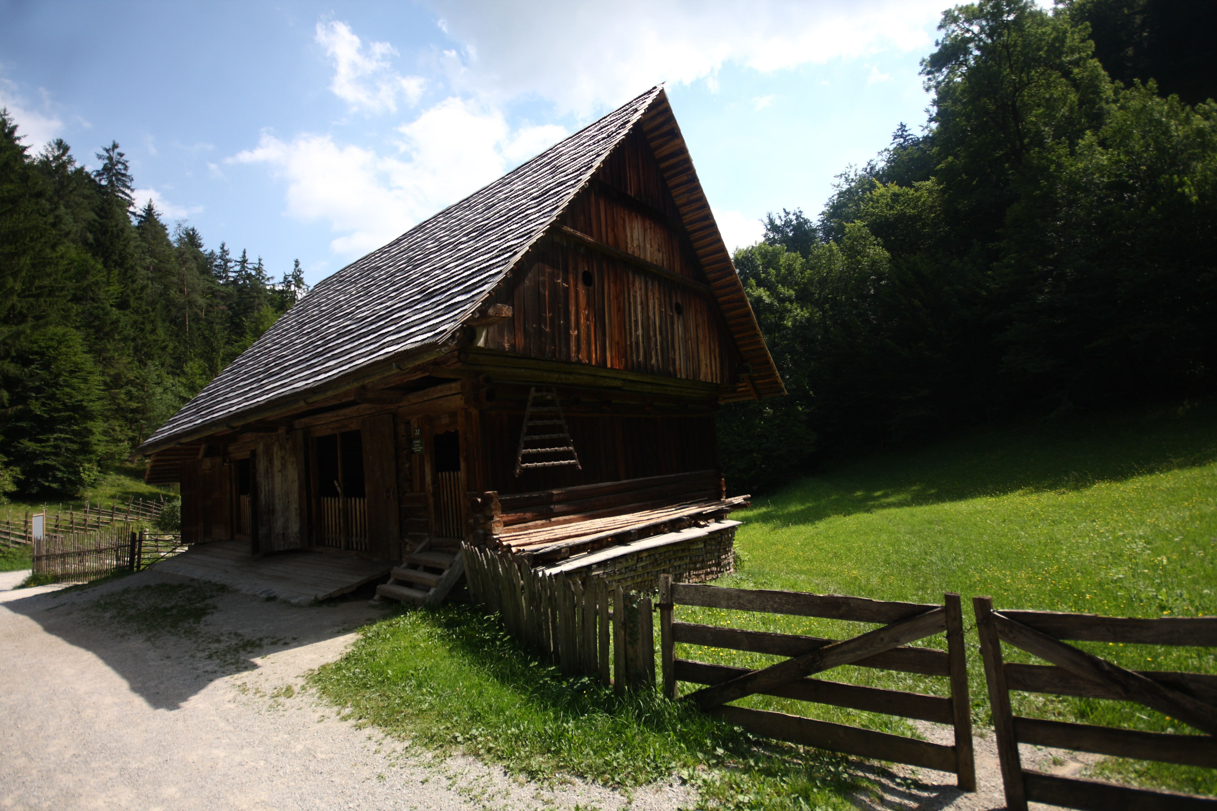 outdoor museum stübing, farm, Styria, Austria